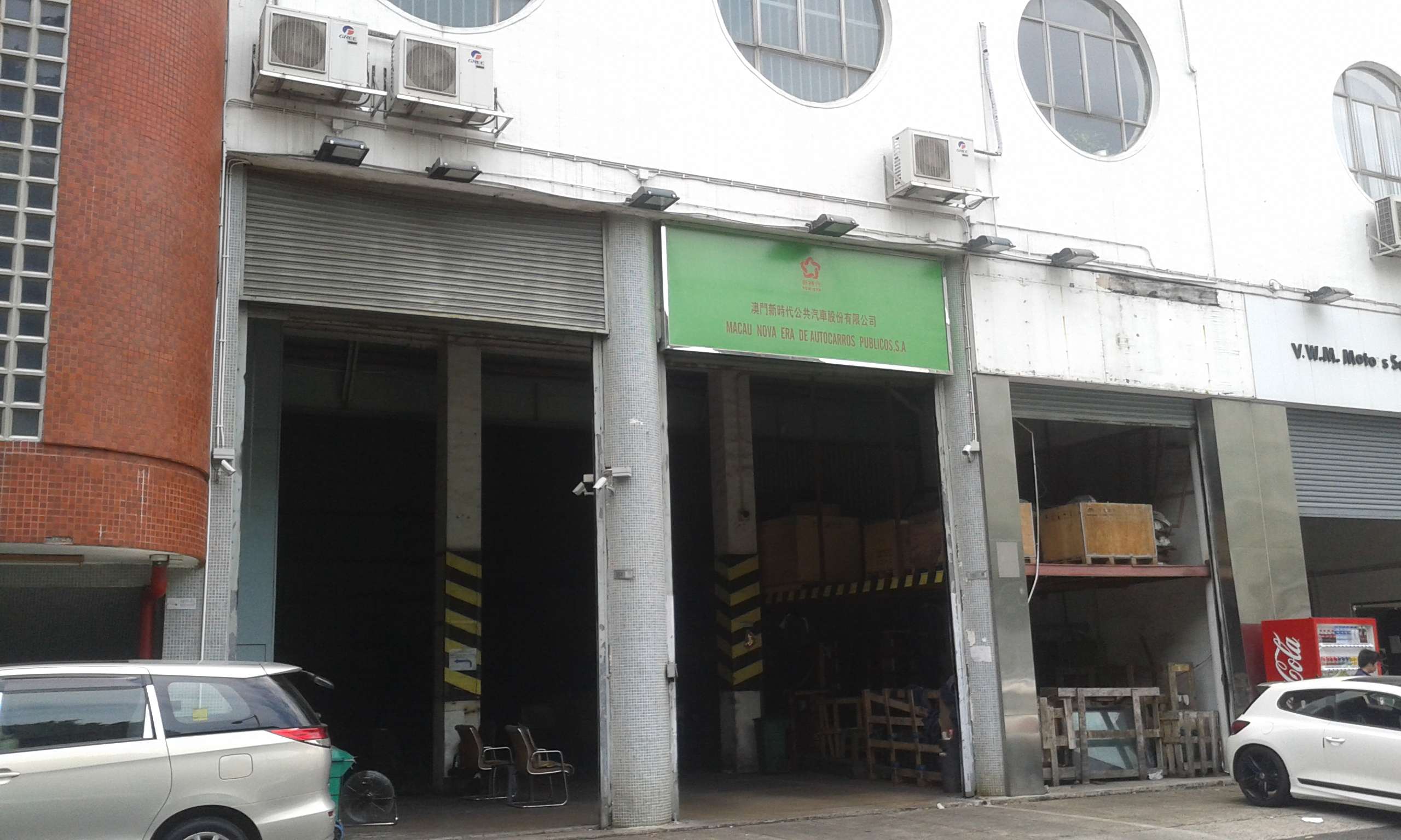 New Era Bus Depot